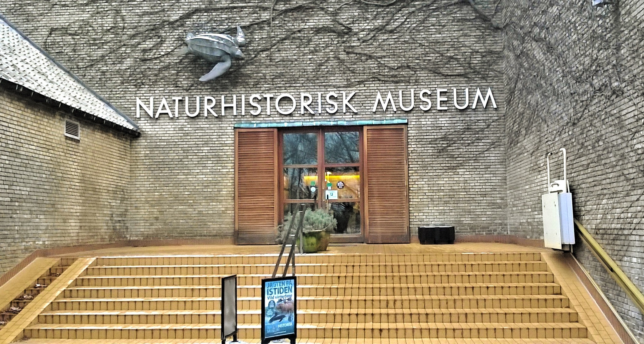 Naturhistorisk Museum indgang